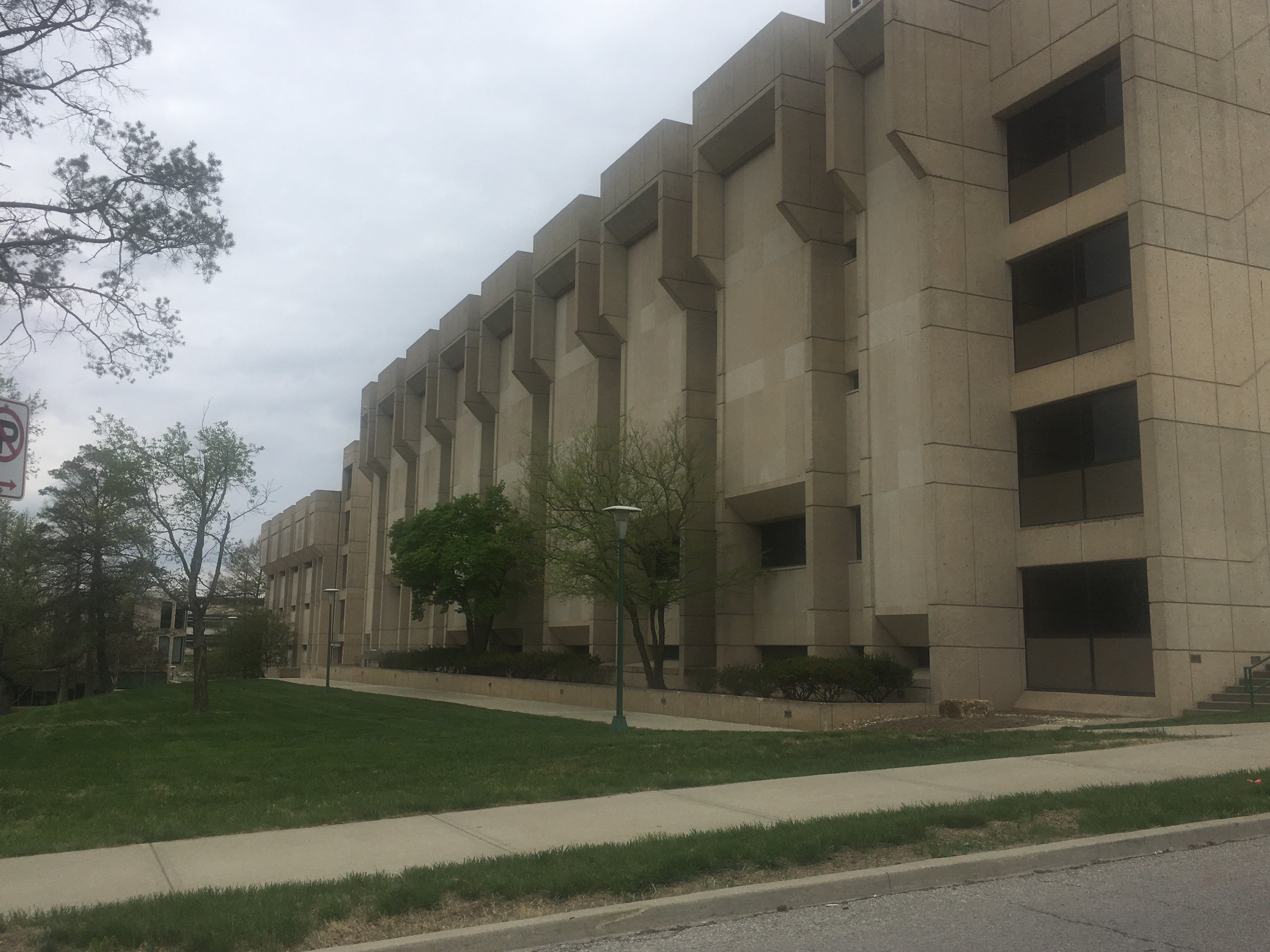 University of Missouri, Kansas City